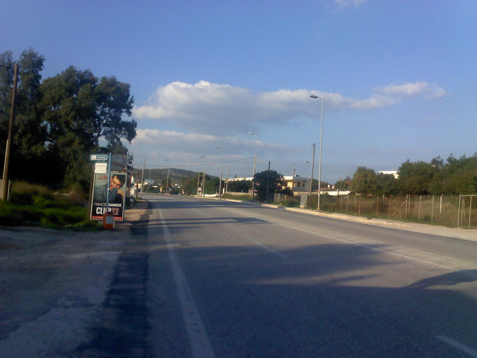 Rue Lavriou Agia Marina